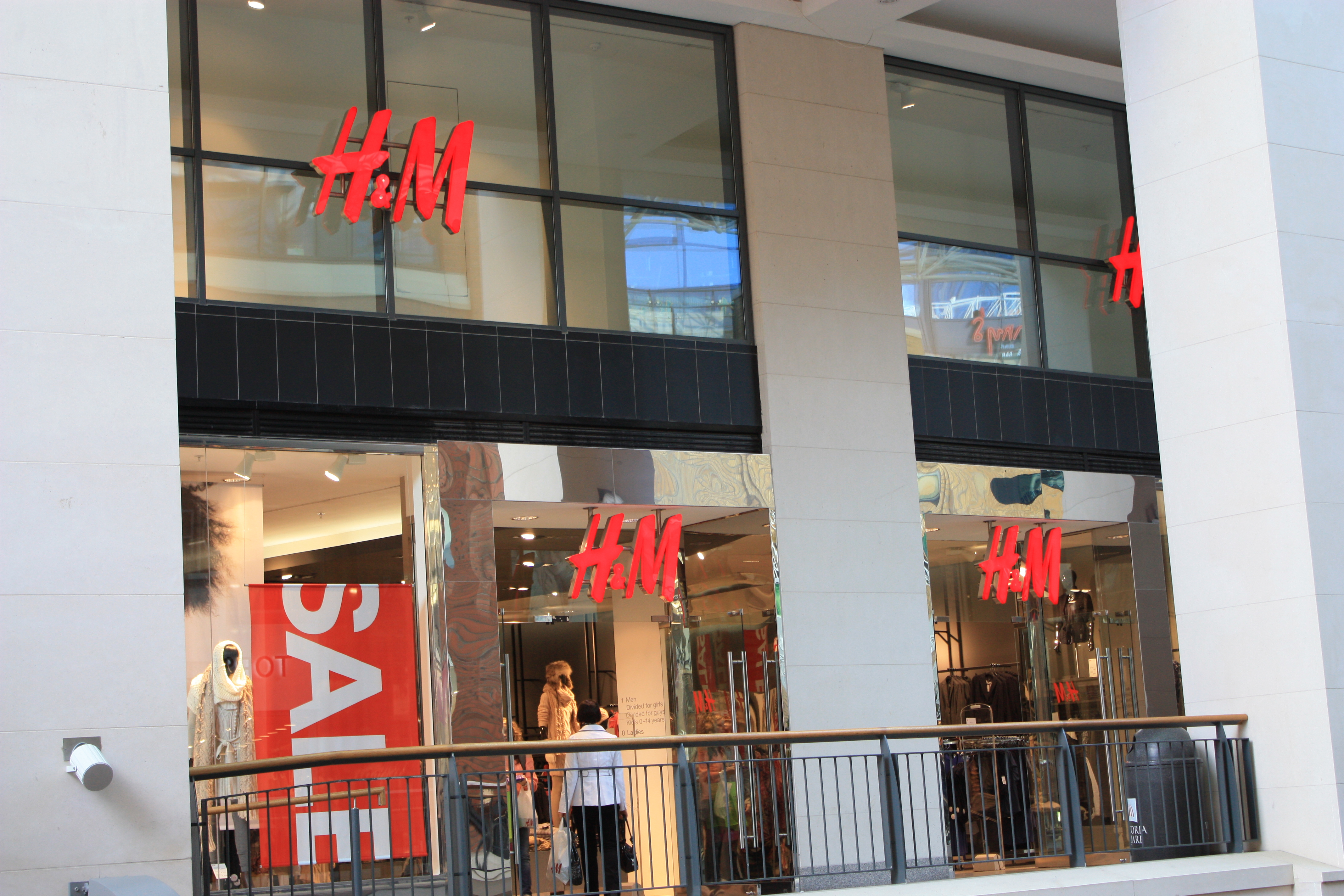 H&M, Victoria Square, Belfast, Northern Ireland, October 2009